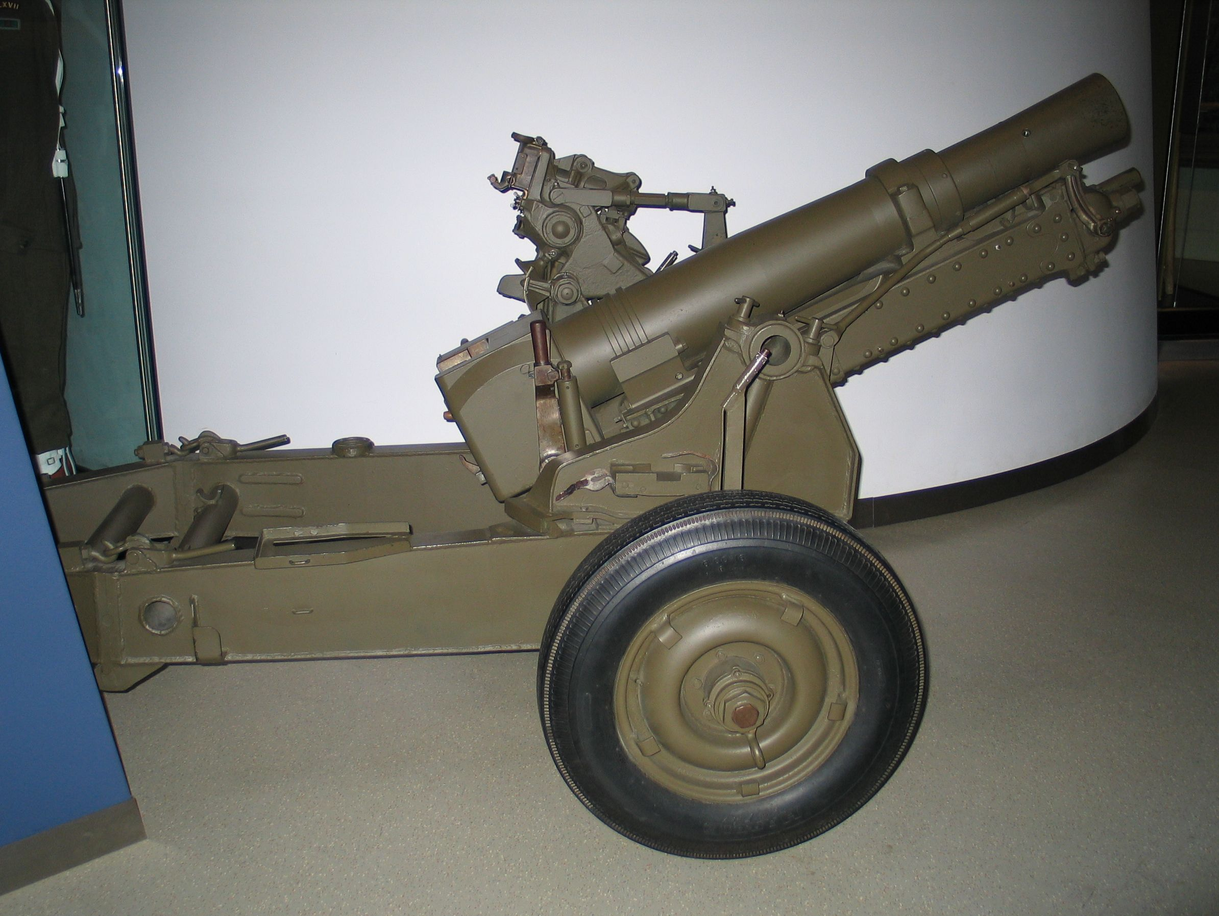 QF 25 pounder short howitzer, in Australian War Memorial, Canberra, Australia.